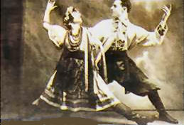 Pyotr Leshchenko and Zinaida Sakis performing a russian dance